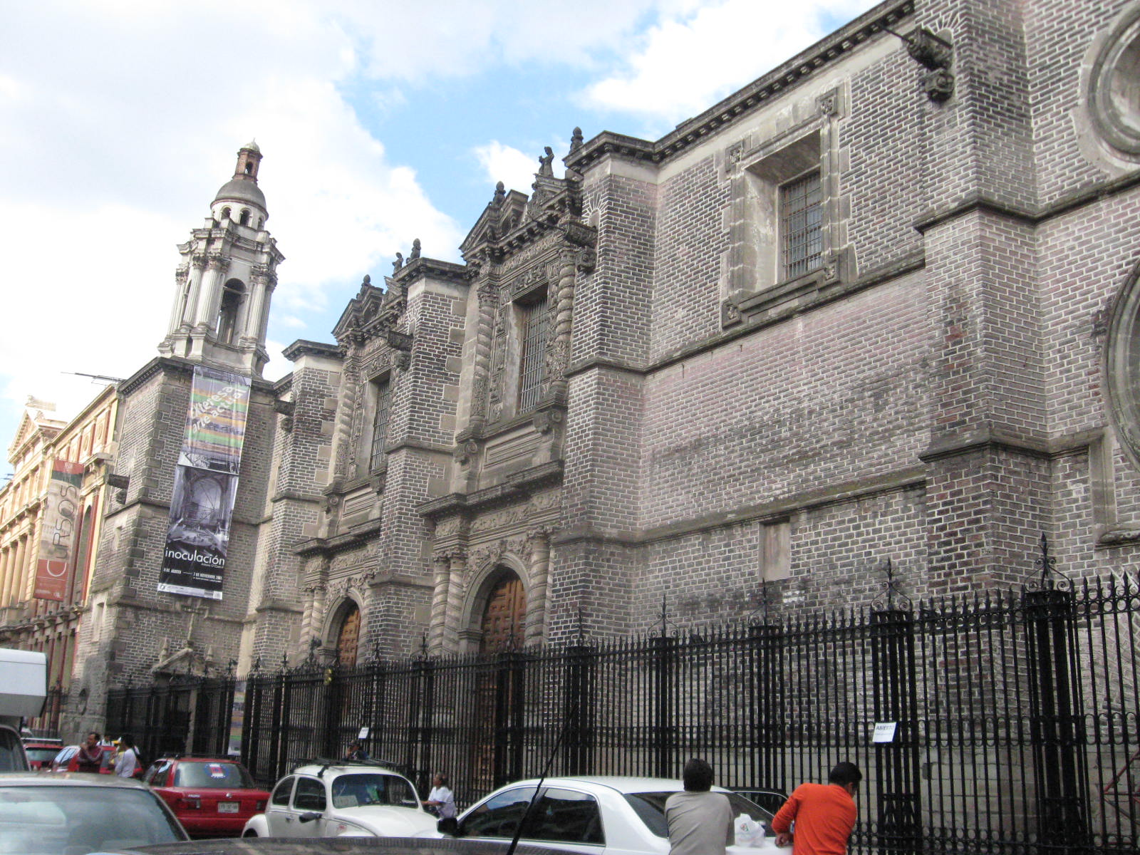 Museum Ex Teresa Arte Actual (Former (convent) Teresa of Today's Art) located off of Moneda Street east of the Zocalo in the Centro of Mexico City